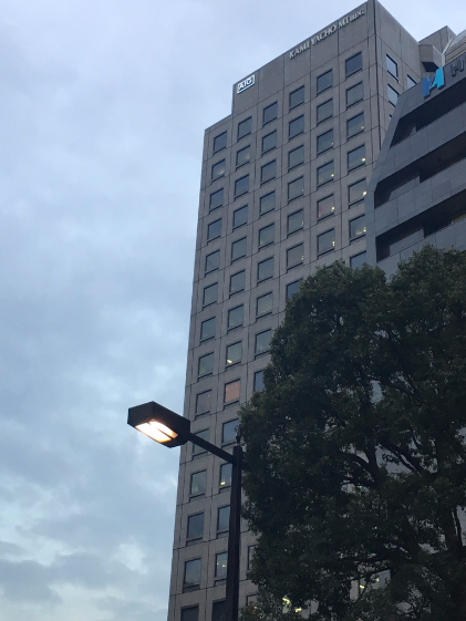 KAMIYA CHO MT